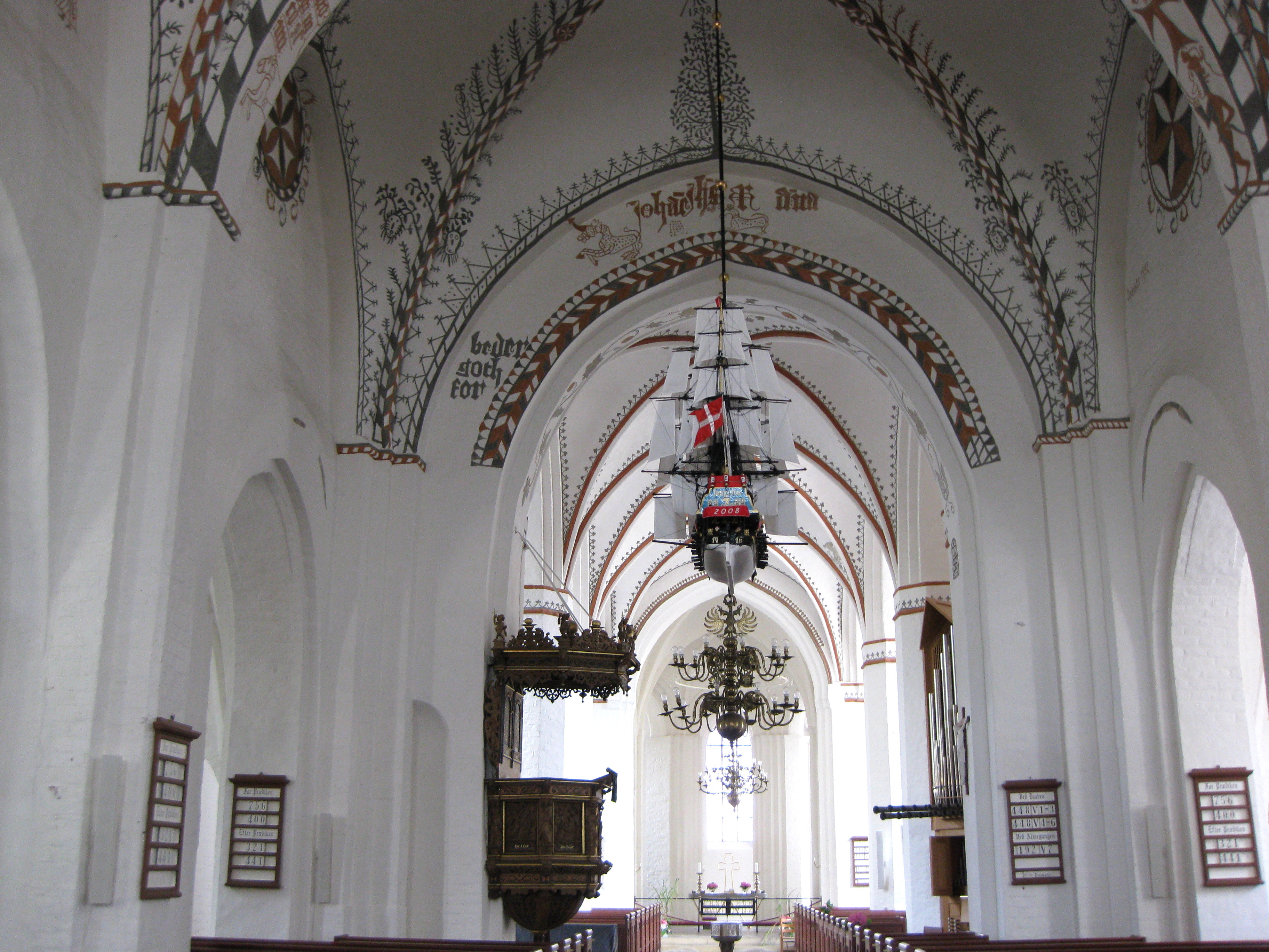 The church room in the church "Stege Kirke" in the small town "Stege". The town is located on the island Møn south of Zealand in east Denmark.